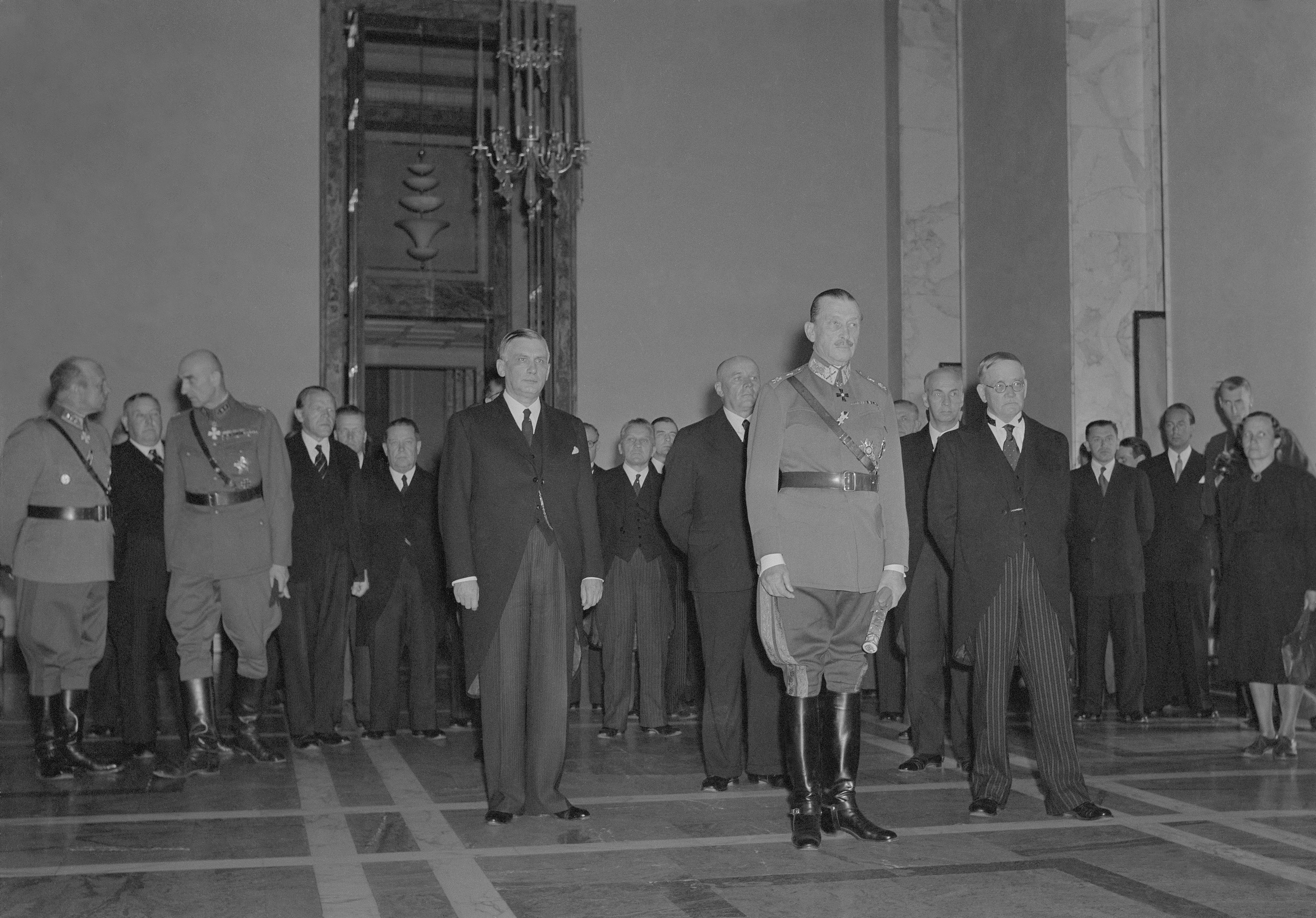 08/01/1944 Election of the President in the Parliament House of Finland, Helsinki. Marshal Mannerheim in the front, on the right parliament chairman Hakkila, on the right prime minister Linkomies, behind on the left first deputy chairman Tarkkanen and on the right second deputy chairman Horelli.